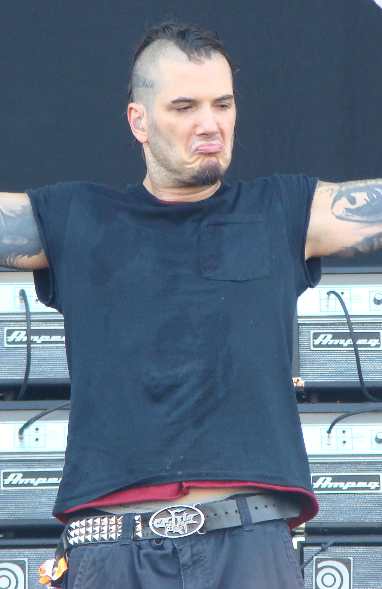 Down´s vocalist Phil Anselmo, playing live at Gods of Metal 2009.